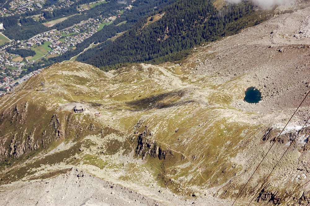 Mid-station, Aiguille du Midi, Haute-Savoie, France